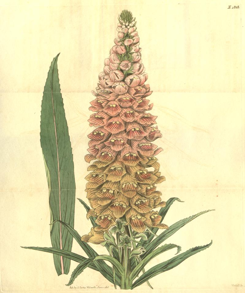 Illustration of Digitalis ferruginea